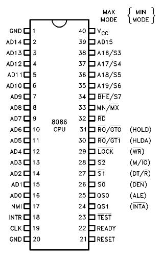 Microprocessor 8086 Pin configuration